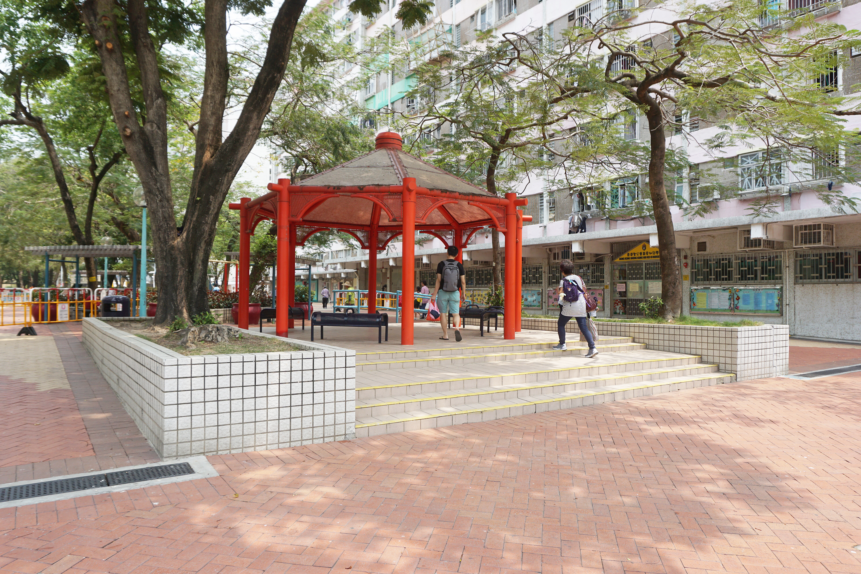 Lai Kok Estate in Cheung Sha Wan, Hong Kong.